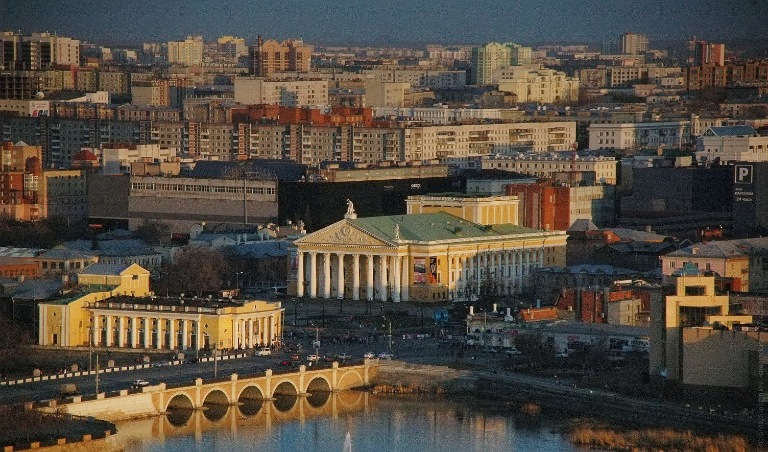 Chelyabinsk state theater of opera and ballet – view from Svyatogor complex